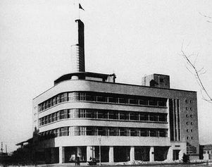 Hsinking branch of Japan Wool Textile Co.